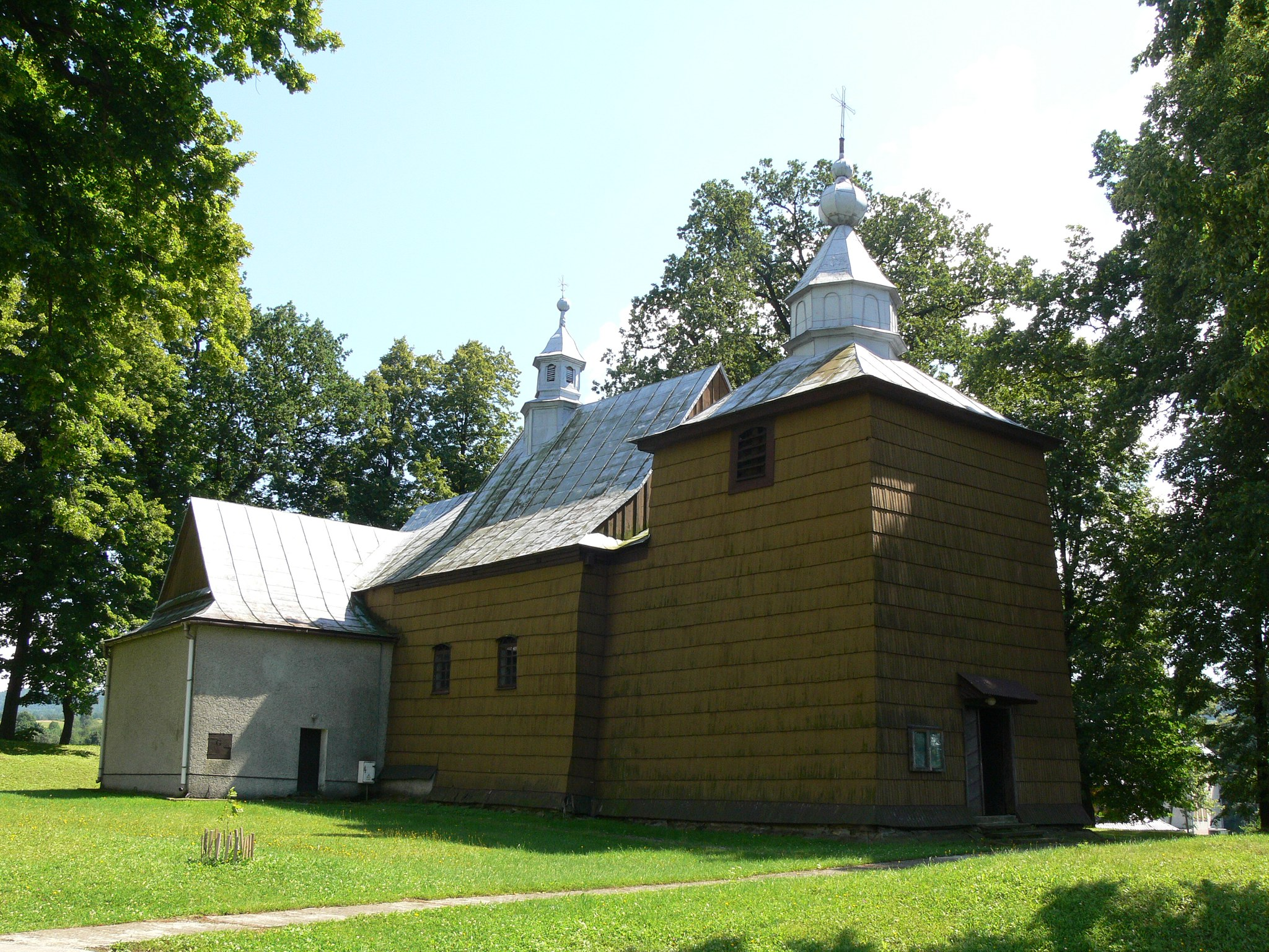 Paris church in Króliku Polskim, community Rymanów, Poland